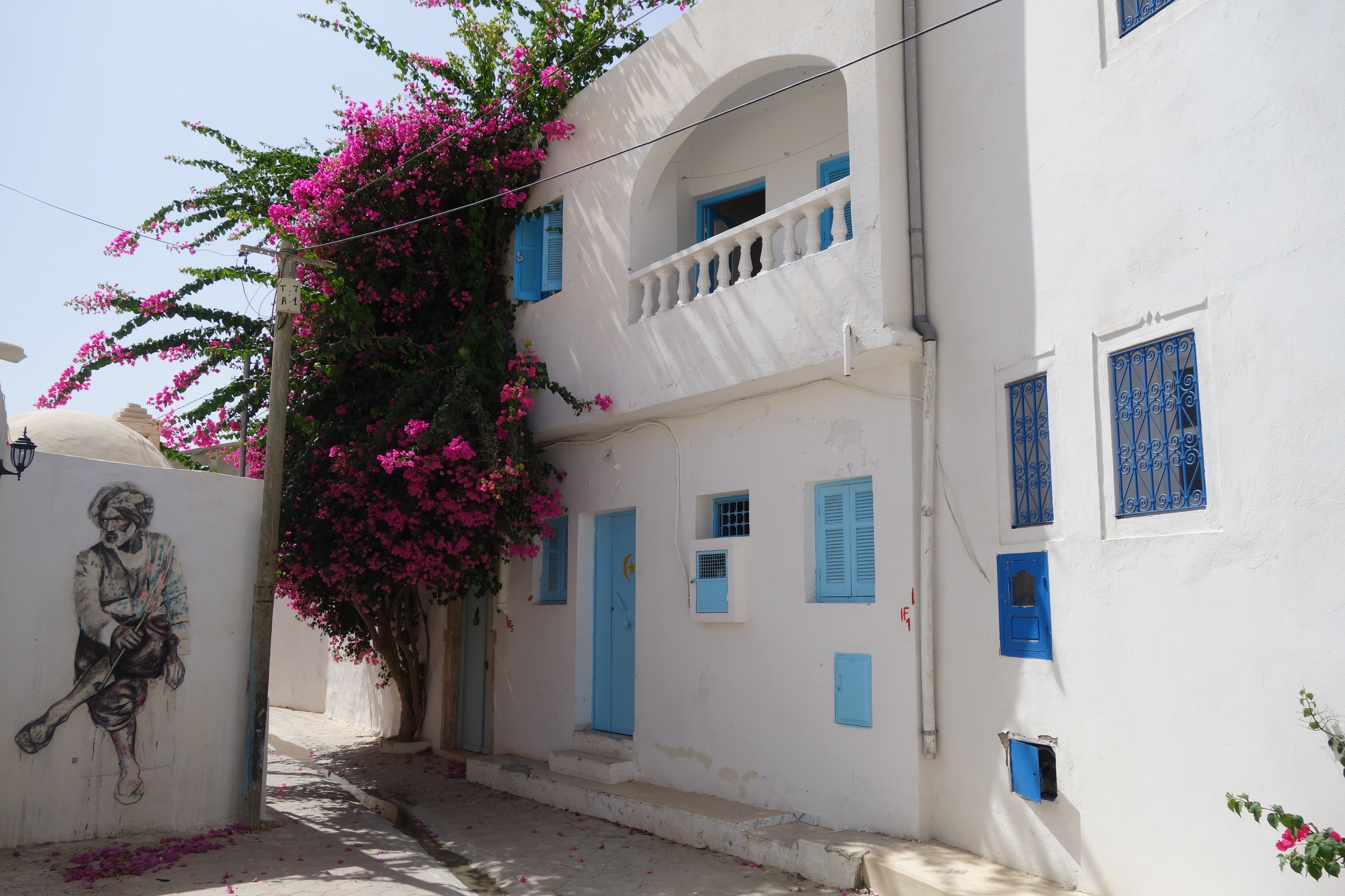 Djerba Er Riadh Street Art